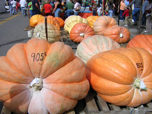 Picture of some pumpkins at the Barnesville Pumpkin Festival in Barnesville, Ohio, on September 27, 2008. Barnesville's Pumpkin Festival is an annual festival that began in 1964.